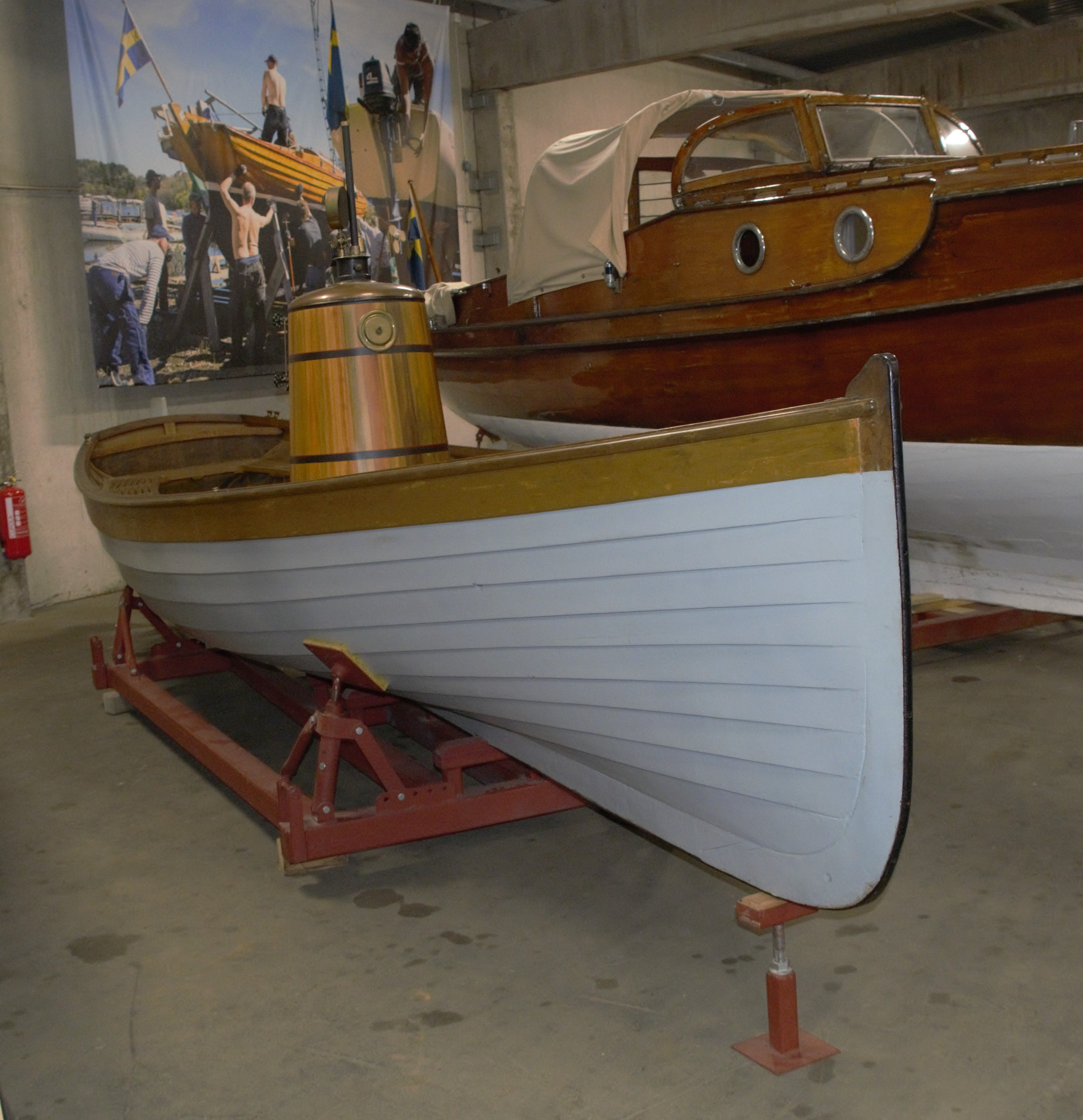 Colibri steam boat from Sweden. End of 19th Cenrury, First owner: Henrik Tore Cedergren.(1853-1909) Sjöhistoriska museet, Stockholm